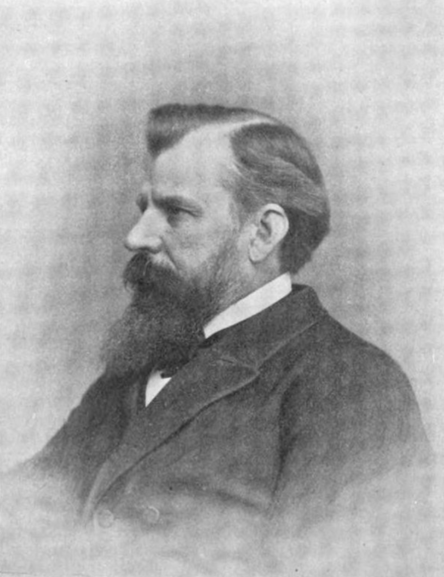 Judge Thomas H. Haskell.